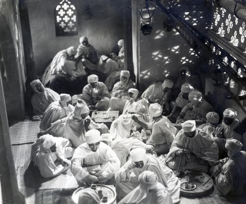 Veiled men drinking coffee and smoking in an Arab café. Place unknown, 1934. Hebt u meer informatie over deze foto, laat het ons weten. Laat een reactie achter (als u ingelogd bent bij Flickr) of stuur een mailtje naar: Please help us gain more knowledge on the content of our collection by simply adding a comment with information. If you do not wish to log in, you can write an e-mail to: Meer foto’s van Spaarnestad Photo zijn te vinden op onze beeldbank